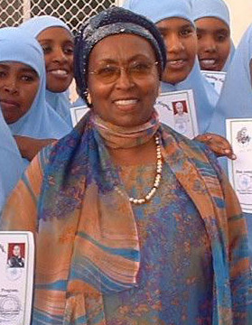 Edna Adan Ismail of the Edna Adan Maternity and Children's Hospital in Hargeisa, Somaliland.